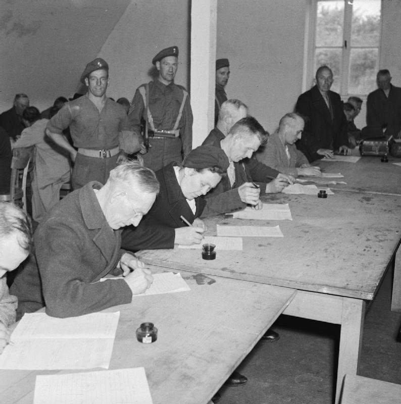 Germany Under Allied Occupation 1945 Suspected Nazis fill in a questionnaire about their political activities in a detention centre near Hamburg run by the British Army.